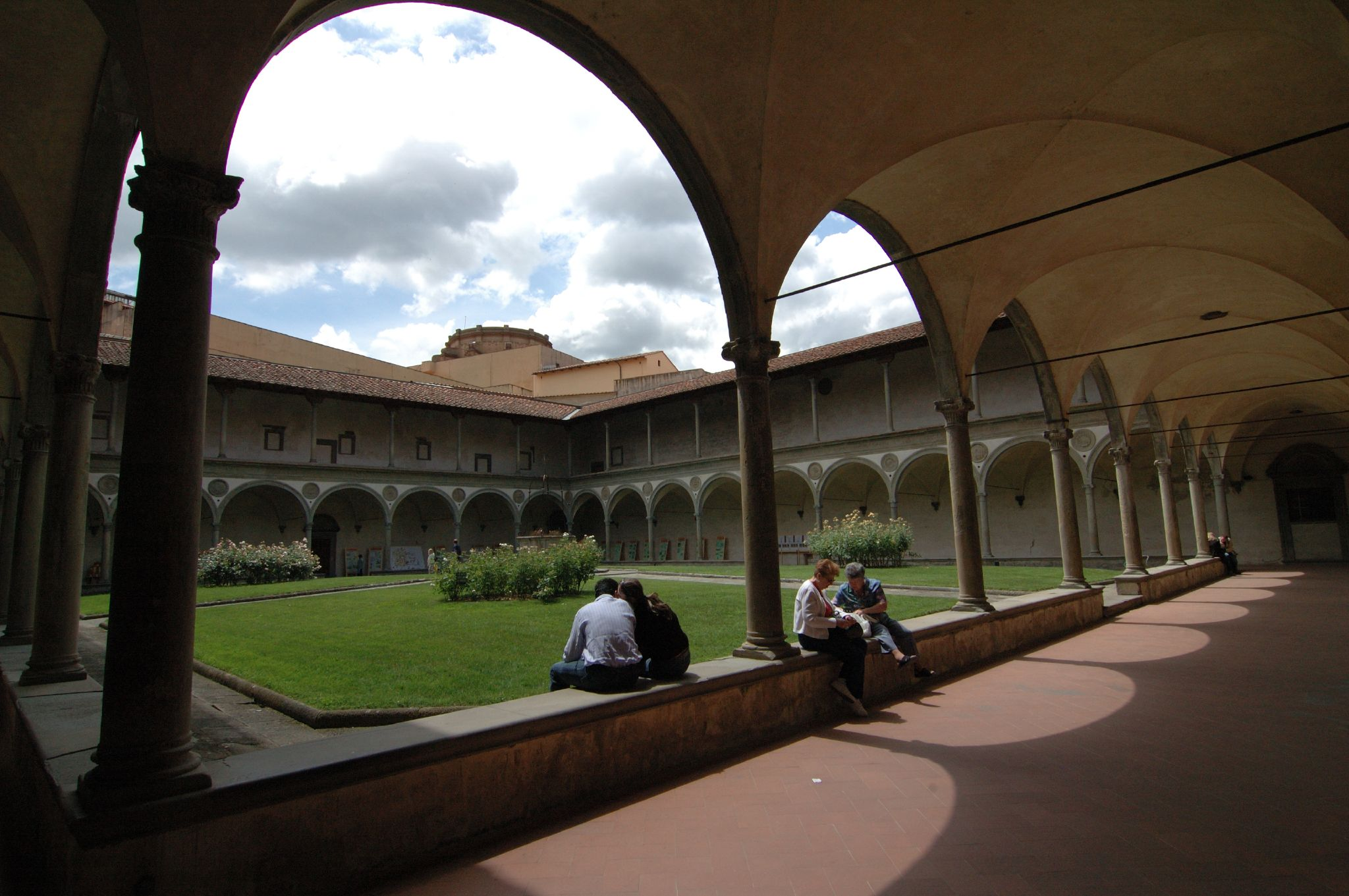 see above